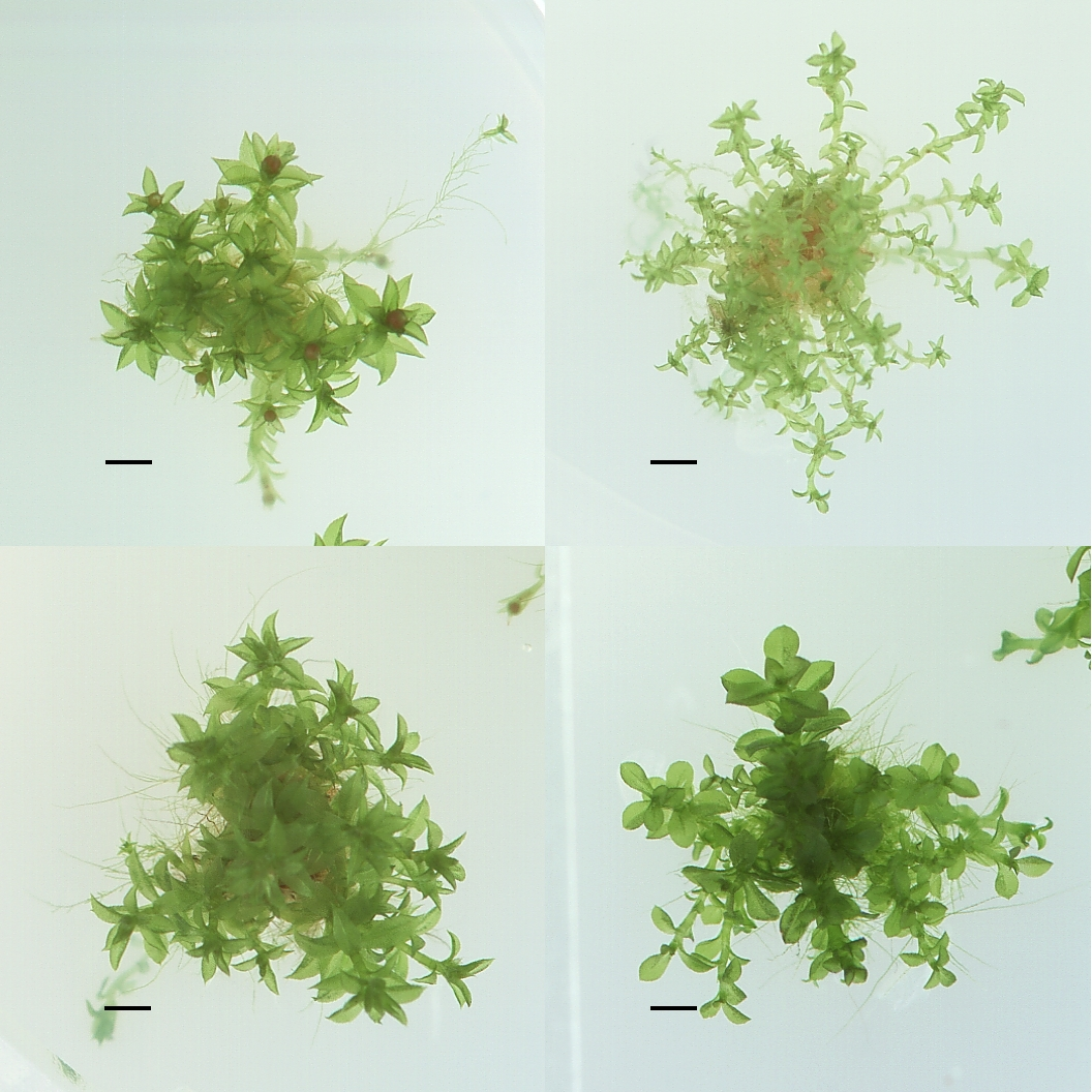 Four different ecotypes of Physcomitrella patens stored at the IMSC. (Scale bars: 1mm)